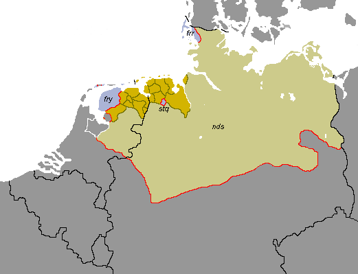 The Friso-Saxon varieties in the North Sea region Nedersaksies: De Friso-Saksische toalen ien Noordzee gebied